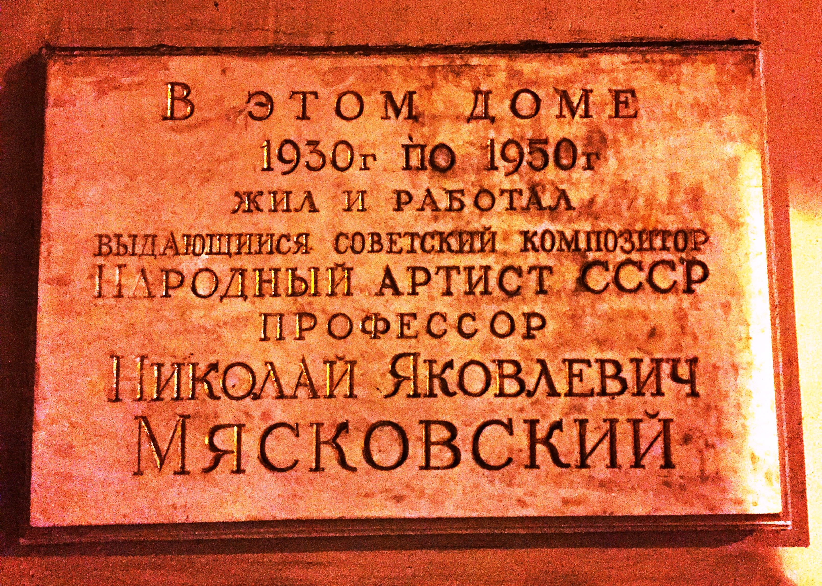 Commemorative plaque on a house in Moscow (Sivtsev Vrazhek 4) where Nikolay Myaskovskiy lived